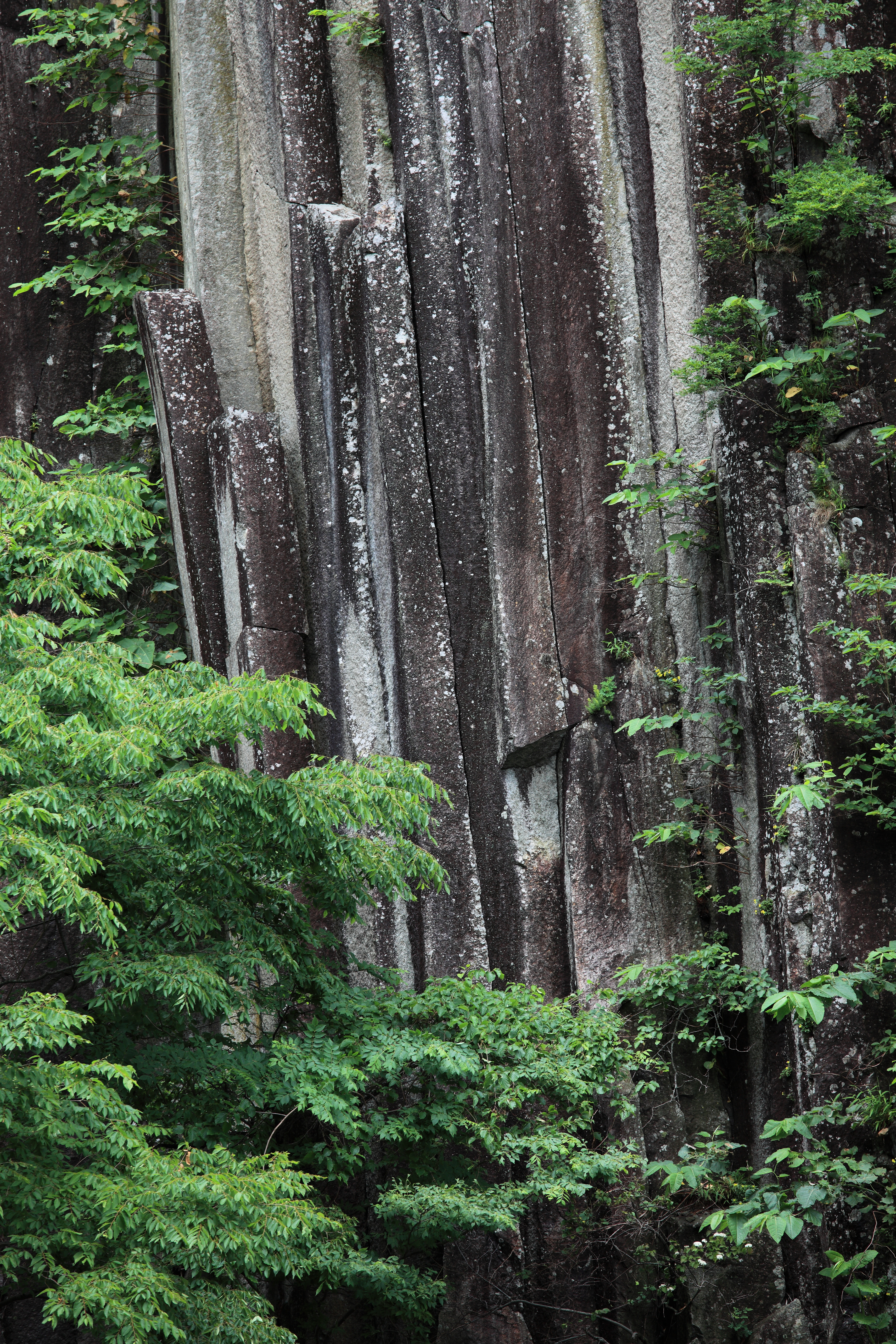 Obara no Zaimoku-iwa ("Zaimoku Rock of Obara") in Shiroishi City, Miyagi Prefecture, Japan